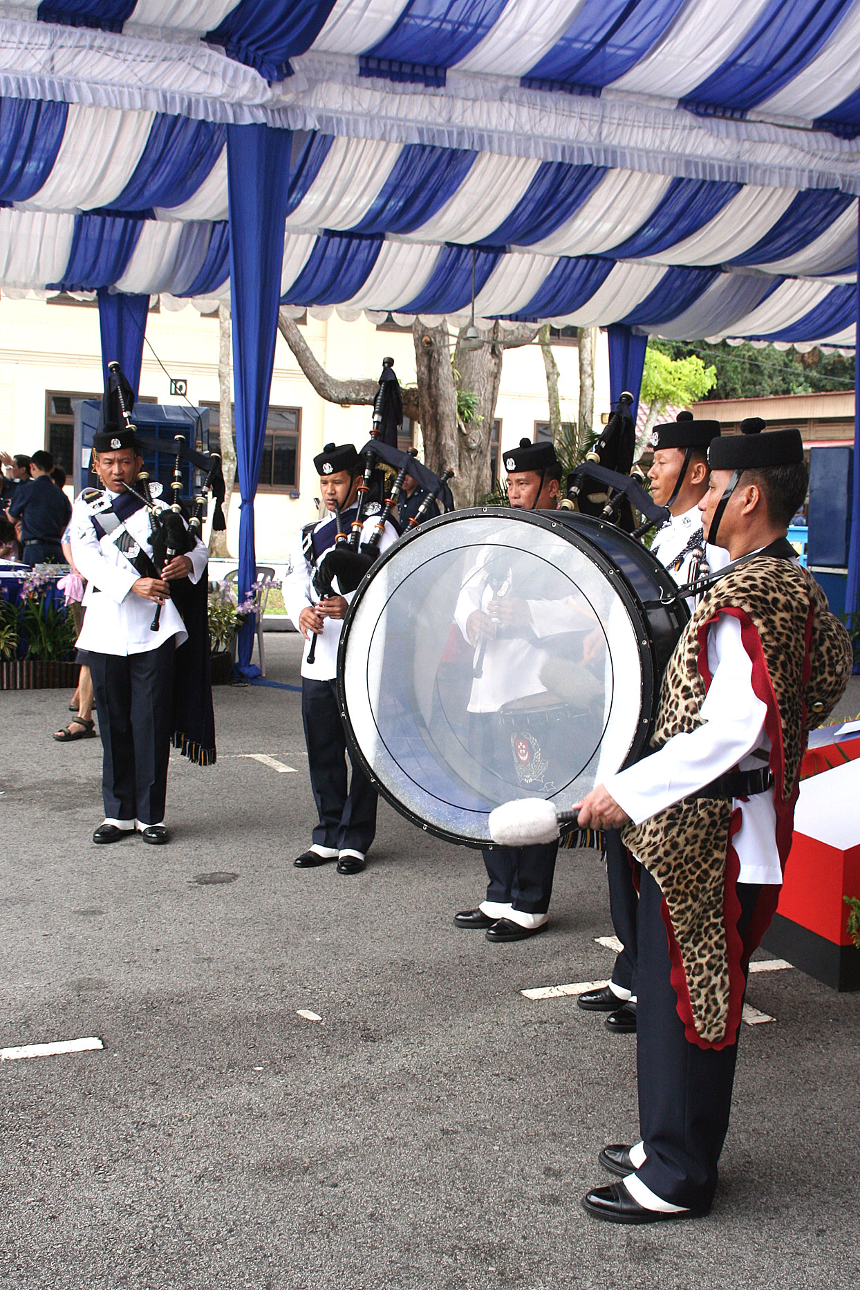 Description: Members of the Singapore Police Force Gurkha Contingent Pipes and Drums Platoon performing at the Police Week Carnival 2005. Source: Self-made Location: Police Academy, Singapore Date: 12/06/2005 12:35 Photographer/Painter: Huaiwei